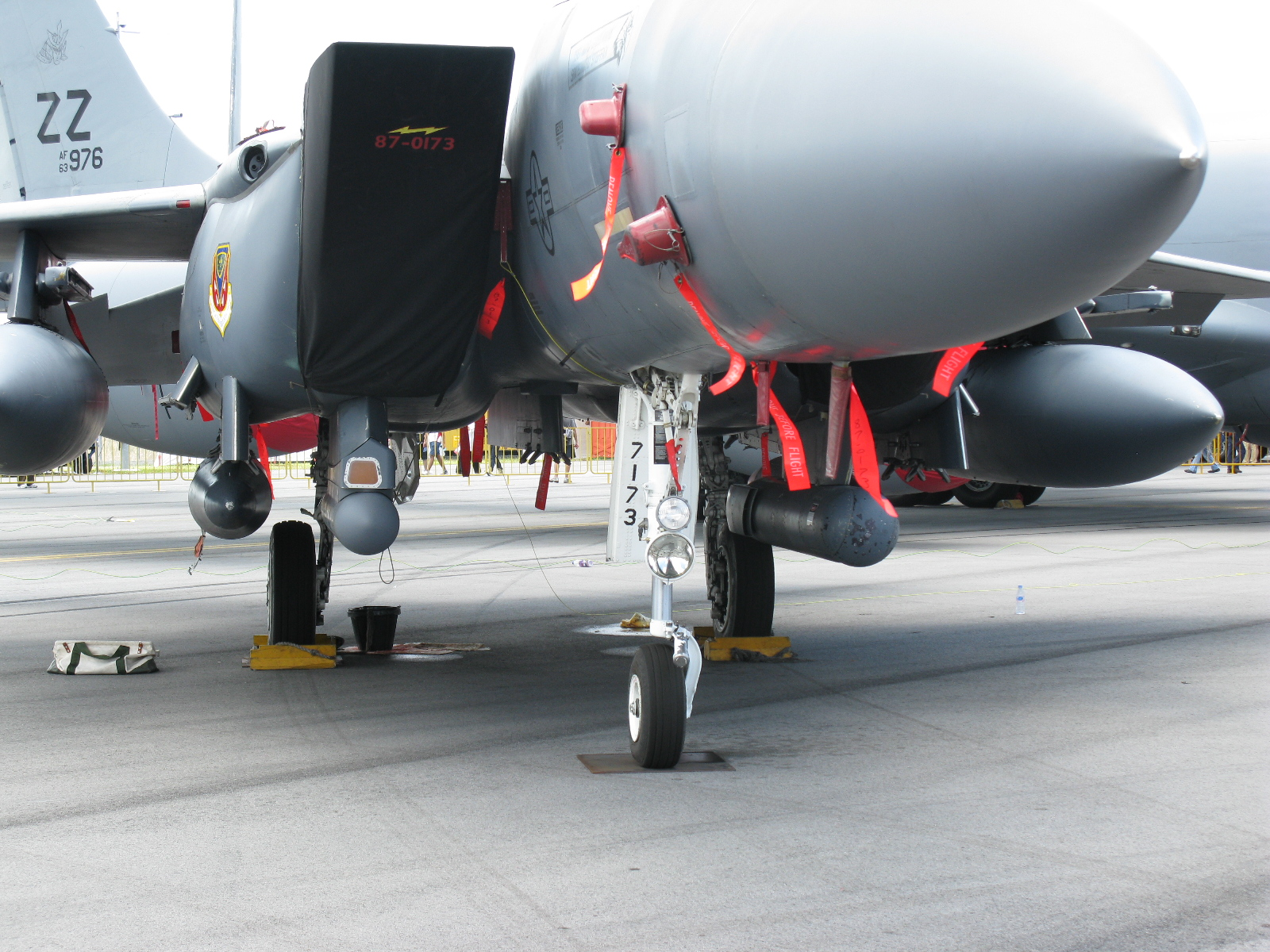 Singapore Air Show 2010: LANTIRN pods mounted under F-15E of USAF. AN/AAQ-13 navigation pod under the left pylon, AN/AAQ-14 targeting pod mounted on the right pylon.